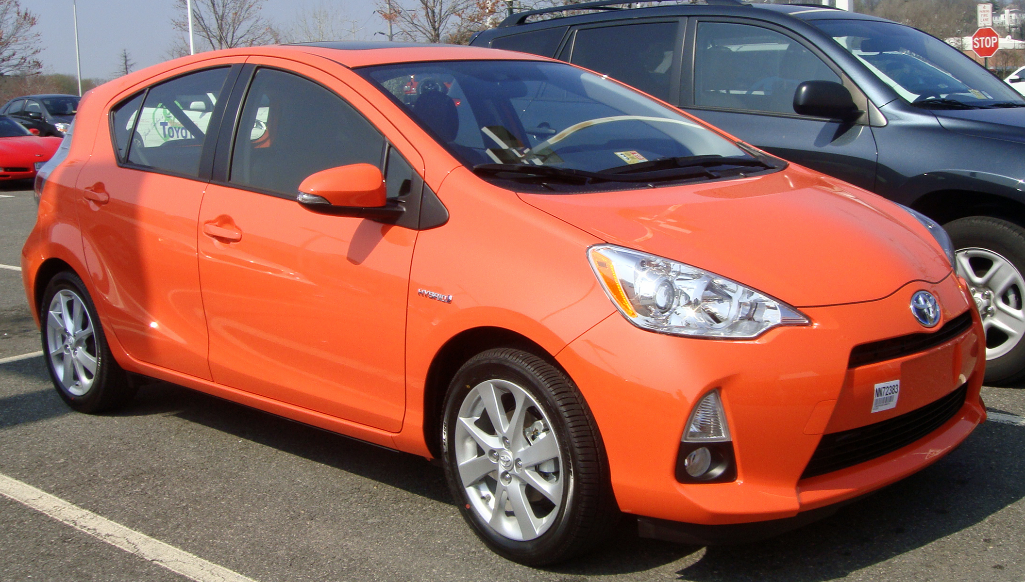 2012 Toyota Prius c, Alexandria, Virginia, US